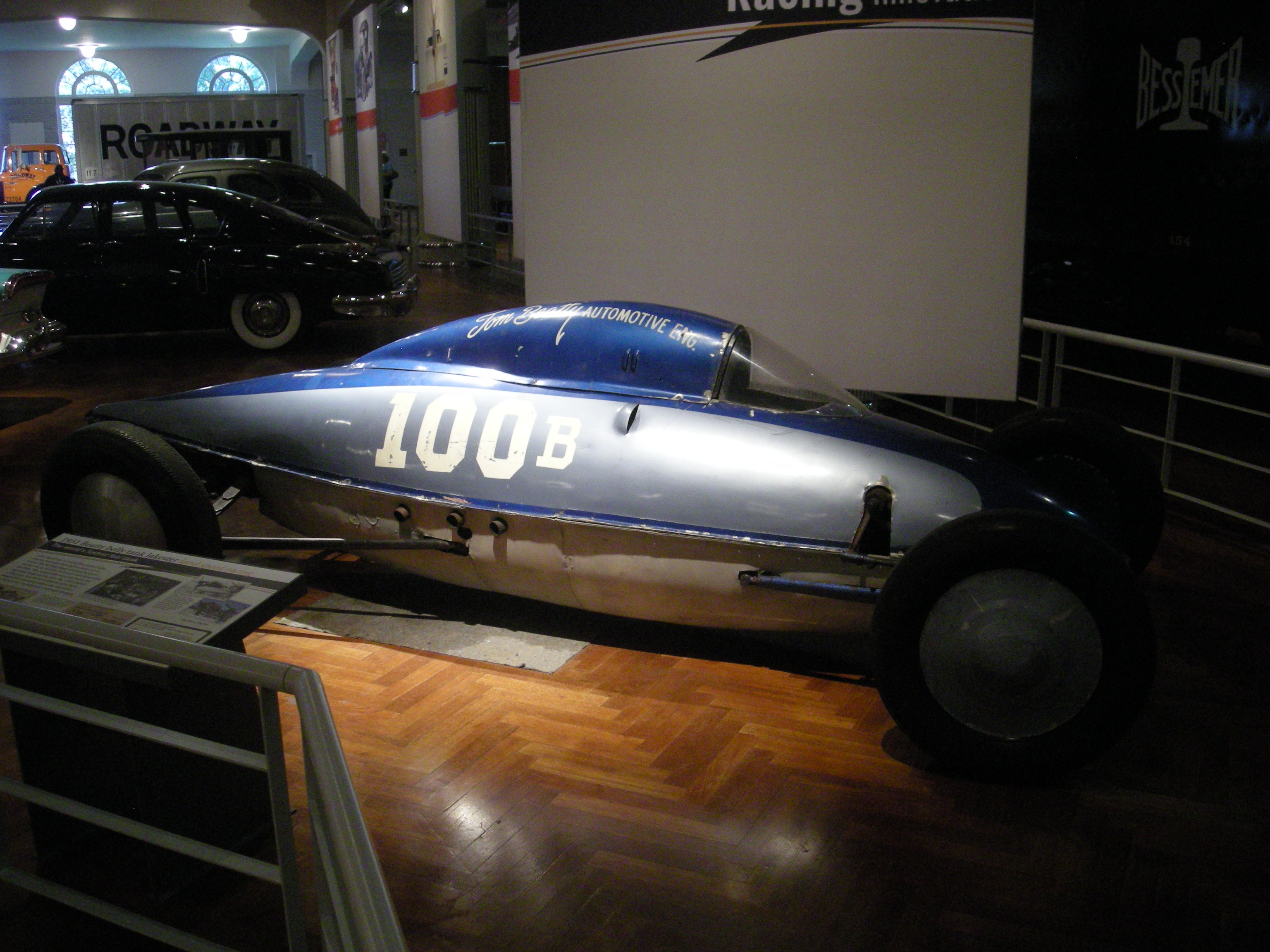 The 1951 Beatty belly tank lakester on display at the Henry Ford Museum in Dearborn, Michigan (United States).